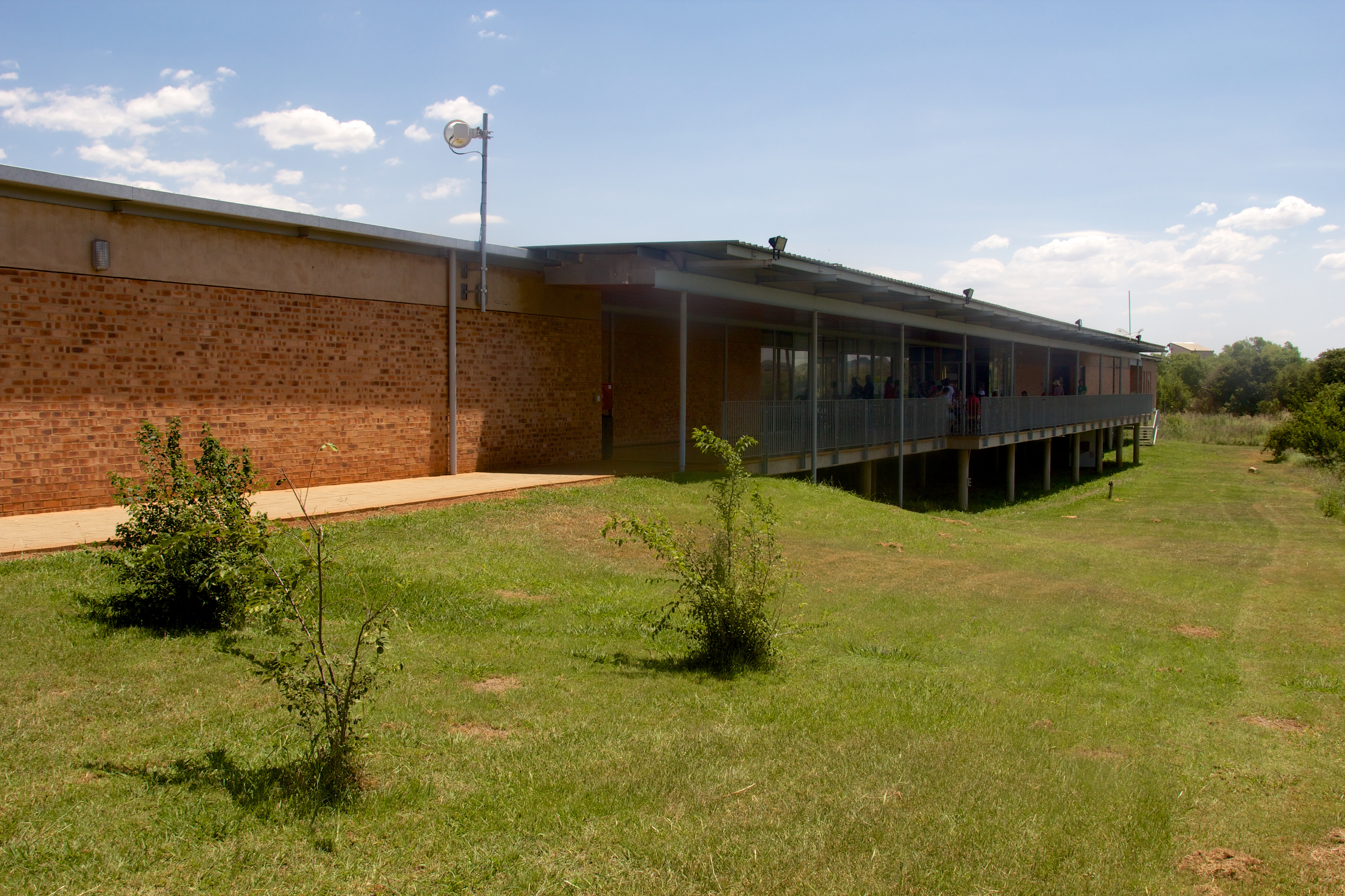 Visitor centre at the Sterkfontein caves.